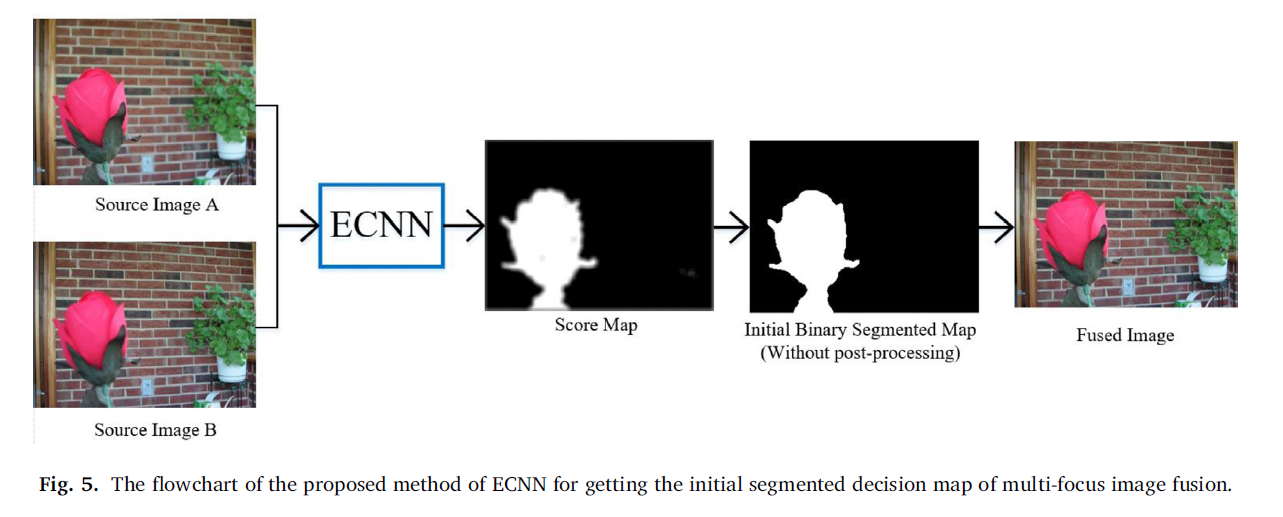 The flowchart of the proposed method of ECNN for getting the initial segmented decision map of multi-focus image fusion